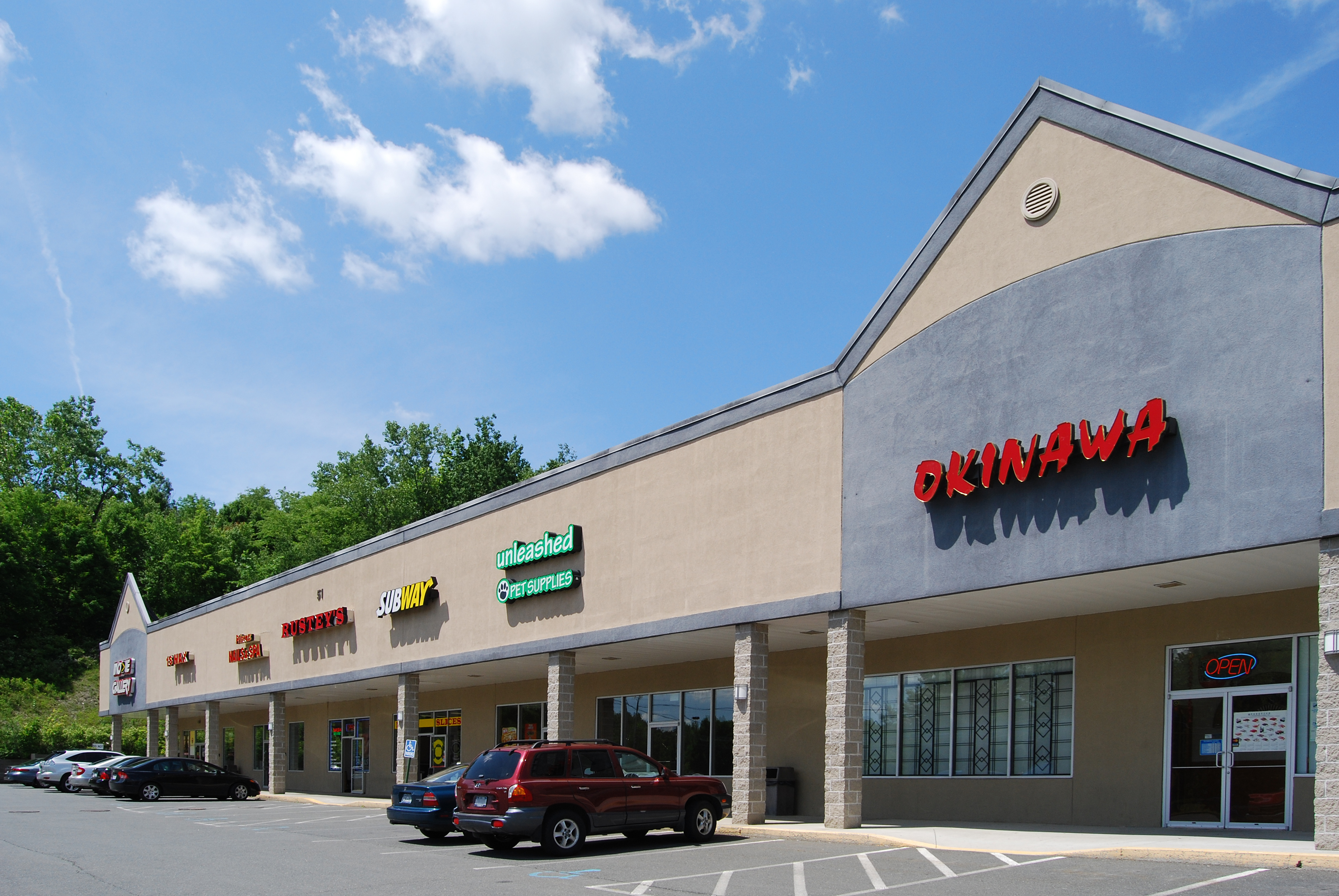 A strip mall in Wynantskill, New York, United States. This strip mall features (from left to right) a video rental store, a dollar store, a nail salon, a pizzeria, a Subway restaurant, a pet store, and a Chinese/Japanese restaurant.